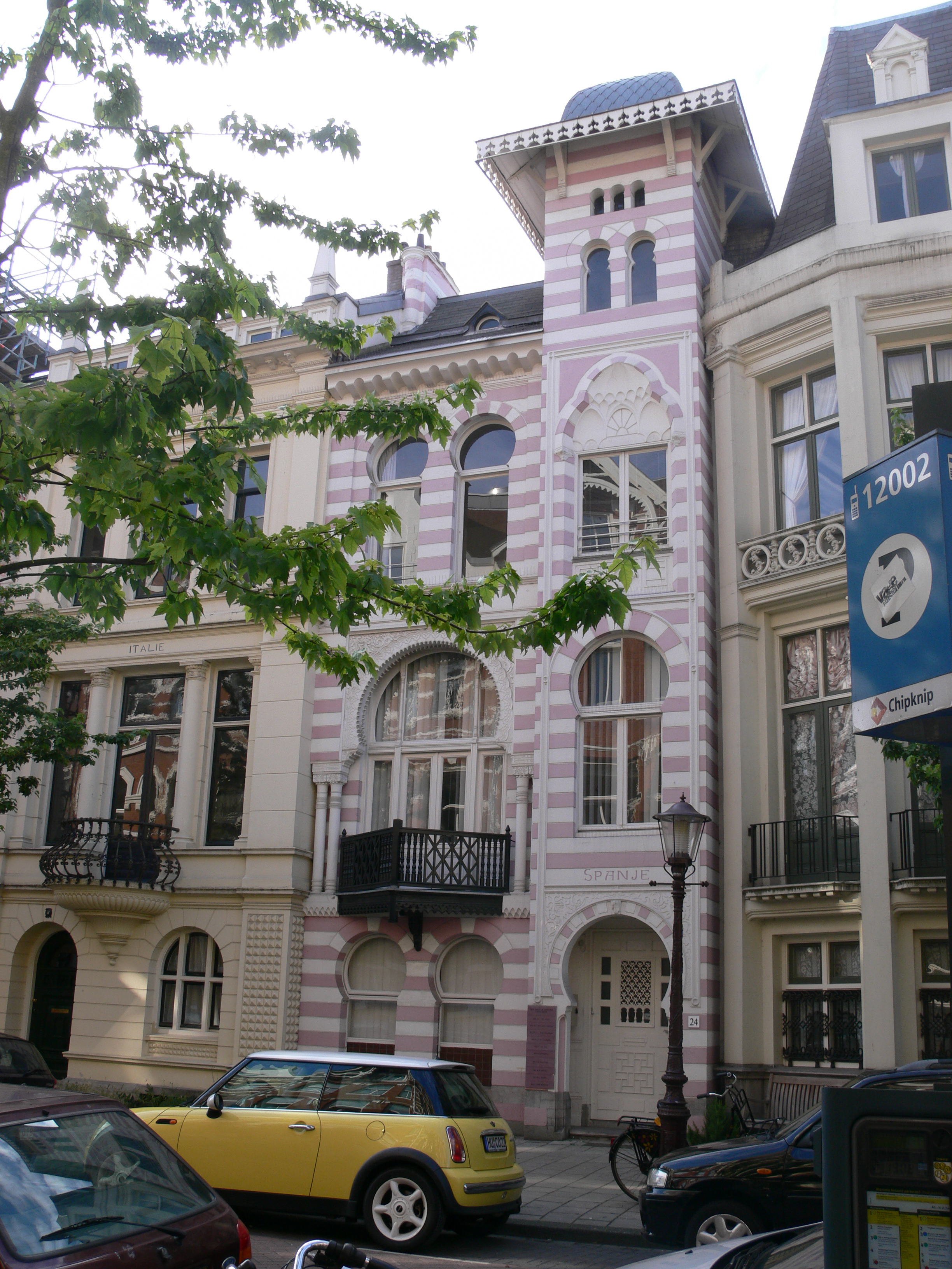 Seven Countries' Houses, built 1894 by Tjeerd Kuipers, Roemer Visscherstraat, Amsterdam, The Netherlands